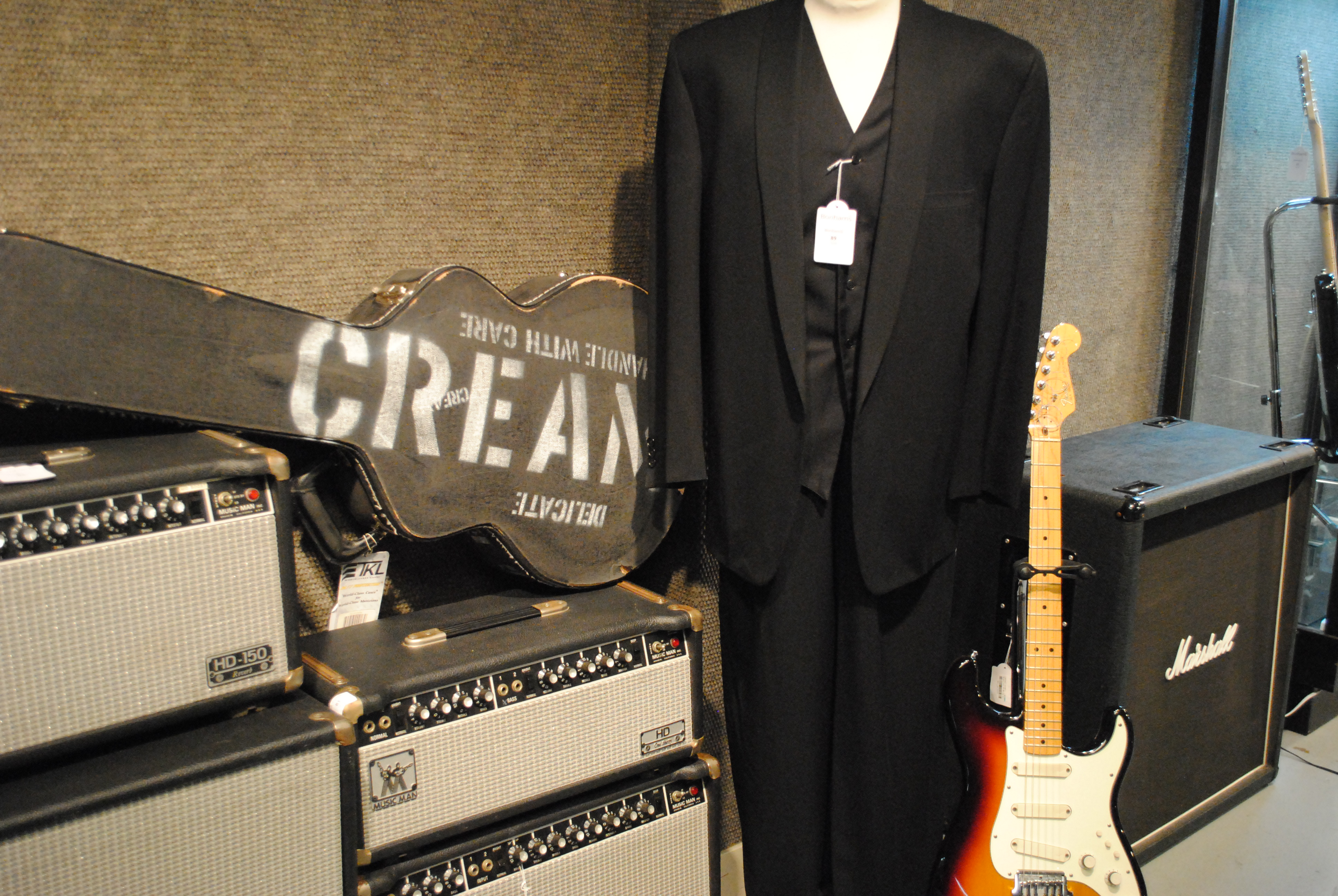 Gianni Versace designed Stage Suit. 9 Mar 2011 13:00 EST New York, The Eric Clapton sale of Guitars and Amps in aid of the Crossroads Centre. Bonhams. A 1983/84 Fender Stratocaster Elite Model, Serial No. E 324289, in sunburst finish. 9 Mar 2011 13:00 EST New York, The Eric Clapton sale of Guitars and Amps in aid of the Crossroads Centre. Bonhams. "The Elite model, launched in 1983 with its mid-range boost facility, formed the basis of the discussion between Fender's Dan Smith and Eric Clapton in 1985 concerning the development of the Clapton Signature Model." 2005 Gibson ES-335 Crossroads Model Prototype, Serial No. Prototype 4. 9 Mar 2011 13:00 EST New York, The Eric Clapton sale of Guitars and Amps in aid of the Crossroads Centre. Bonhams. Music Man guitar amps Marshall cabinet